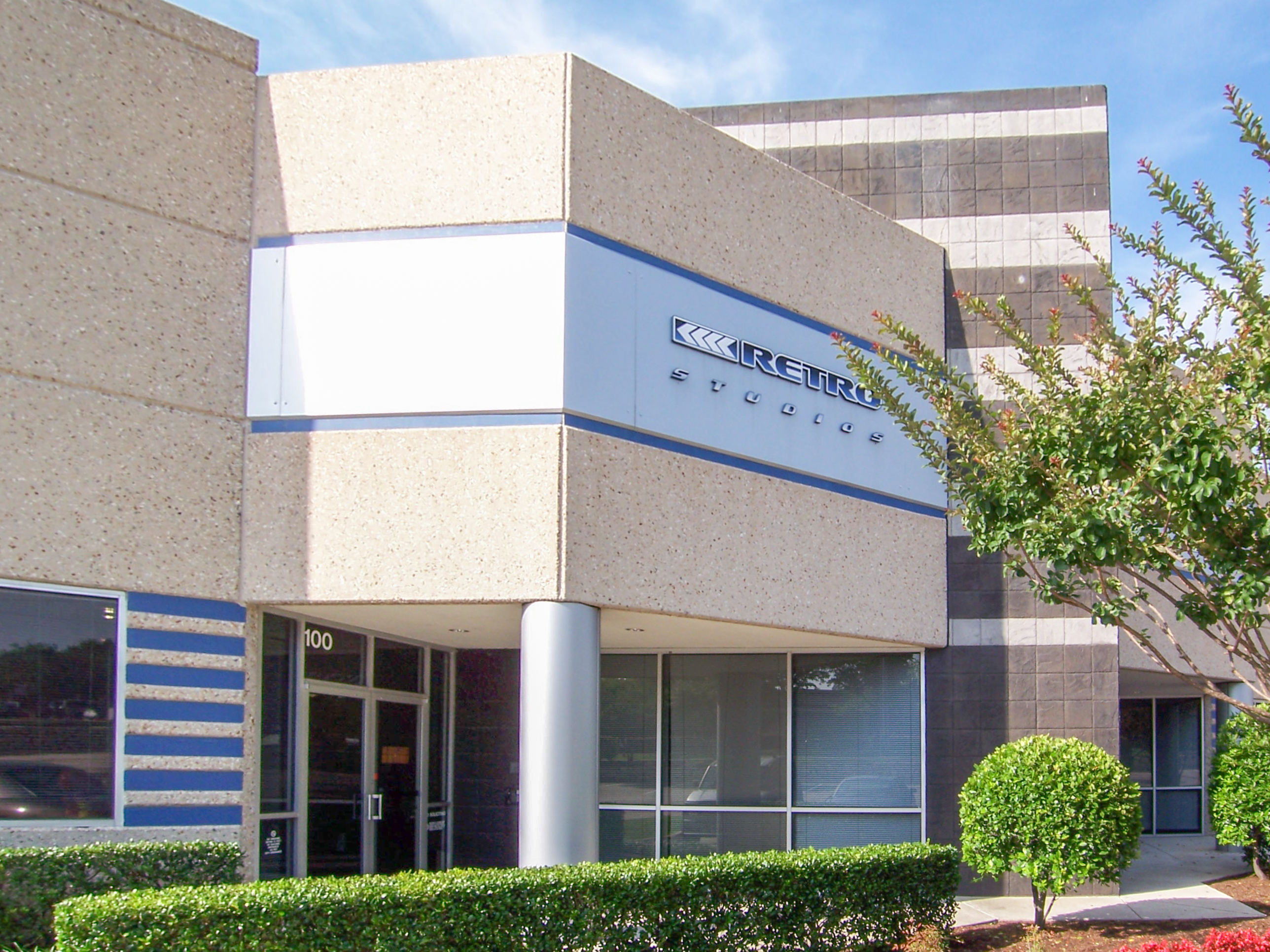 A picture of the exterior of the Retro Studios offices in Austin, Texas